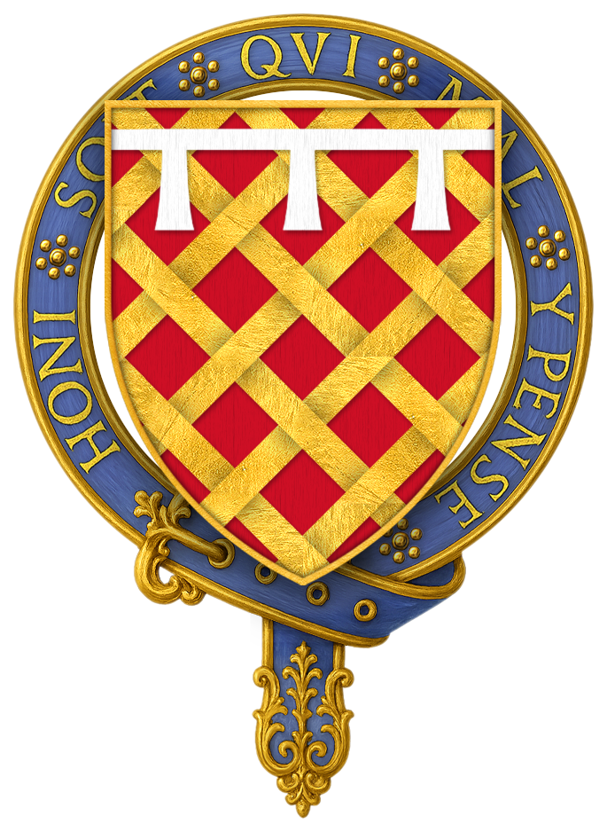 Coat of Arms of Sir James Audeley, KG “ Sir James Audeley, one of the Founders… Arms: Gules, fretty Or, a label for difference. ” BELTZ, George Frederick, Memorials of the Order of the Garter from Its Foundation to the Present Time, London: William Pickering, 1841.